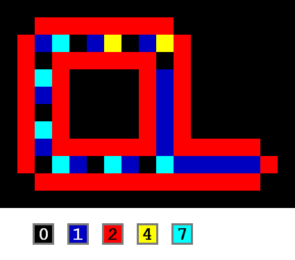 Langton's loop – initial configuration with legend